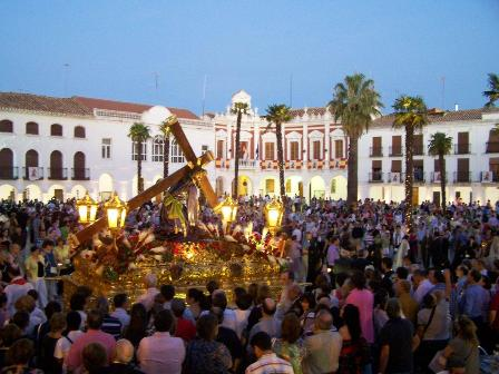 Jesus del Perdon (Manzanares)